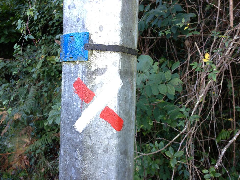 Typical waymarking along the path of the GR 65 in France warning hikers that this is not the path.